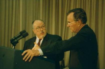 PRESIDENT BUSH PRACTICES HIS UPCOMING SPEECH TO A JOINT SESSION OF CONGRESS IN THE FAMILY THEATRE. THE PRESIDENT CONFERS WITH DAVID DEMAREST, ROGER AILES, SIG ROGICH, RICHARD DARMAN AND ANDY CARD. THE PRESIDENT WALKS ALONG THE SOUTH LAWN SIDEWALK WITH CARD, AILES, ROGICH AND BRUCE CAUGHMAN AFTER THE REHEARSAL.